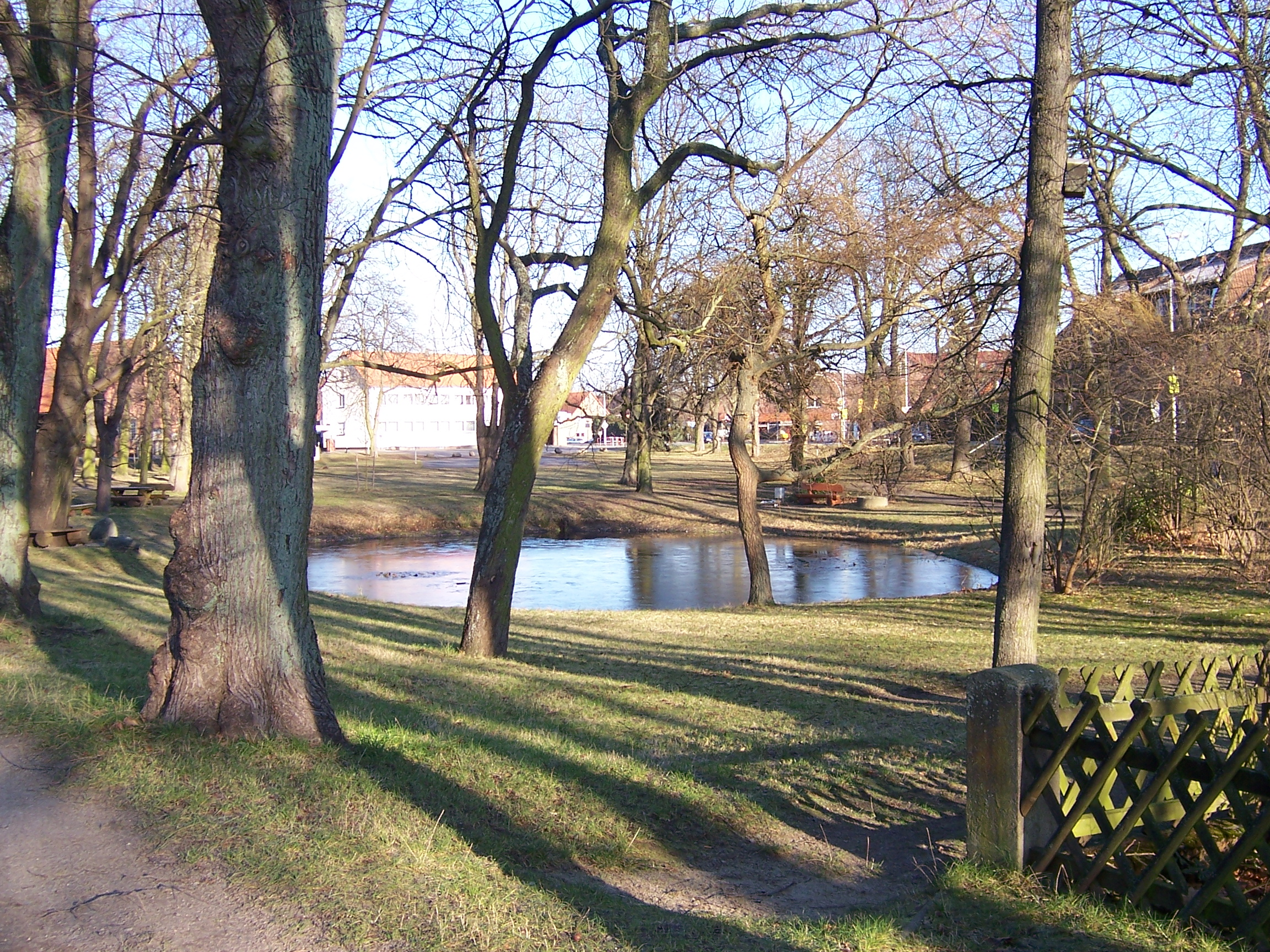 The Lehrte-Aligse pond from south-west